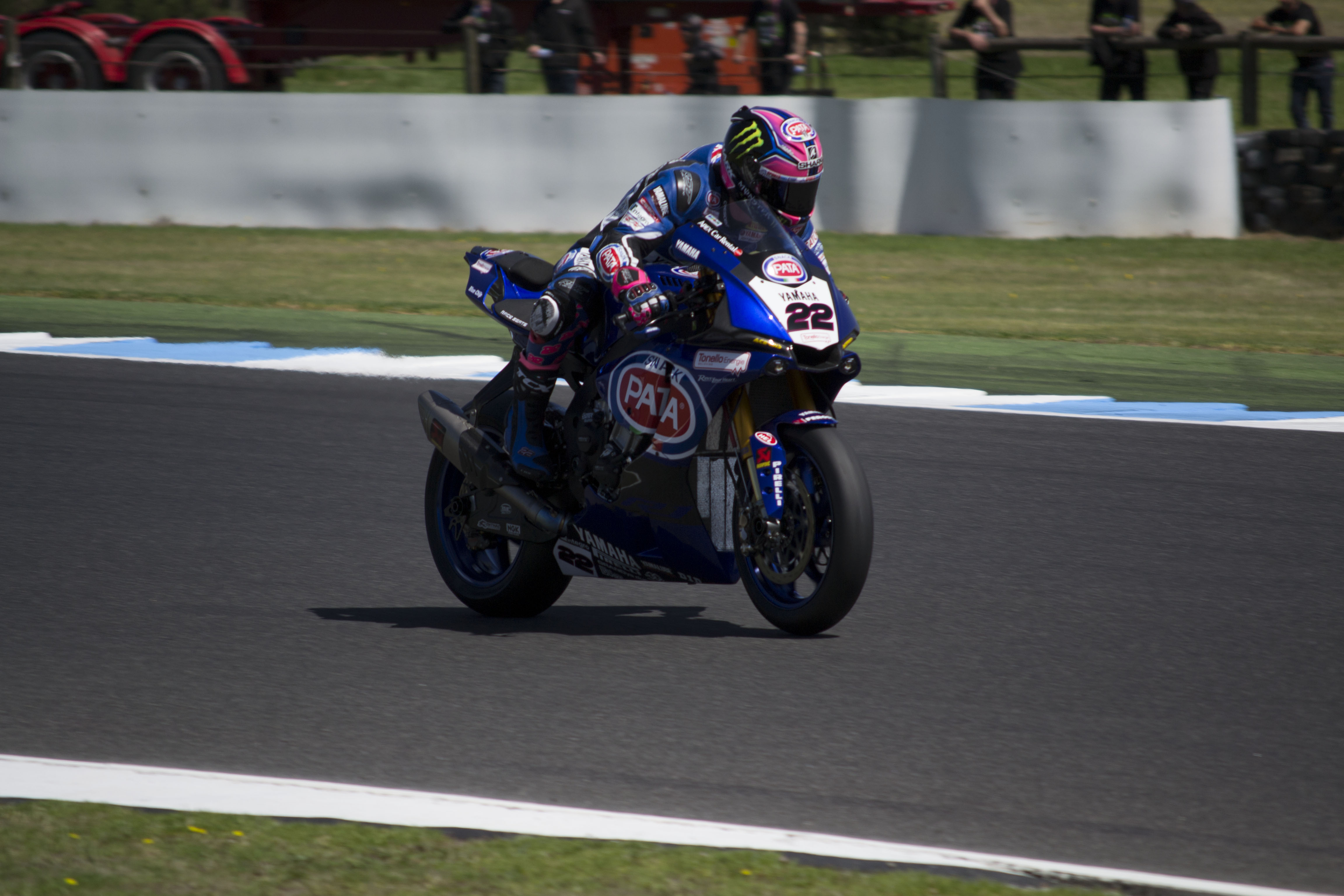 Alex Lowes on track during Superpole 2 at the Australian round of the 2017 World Superbike Championship